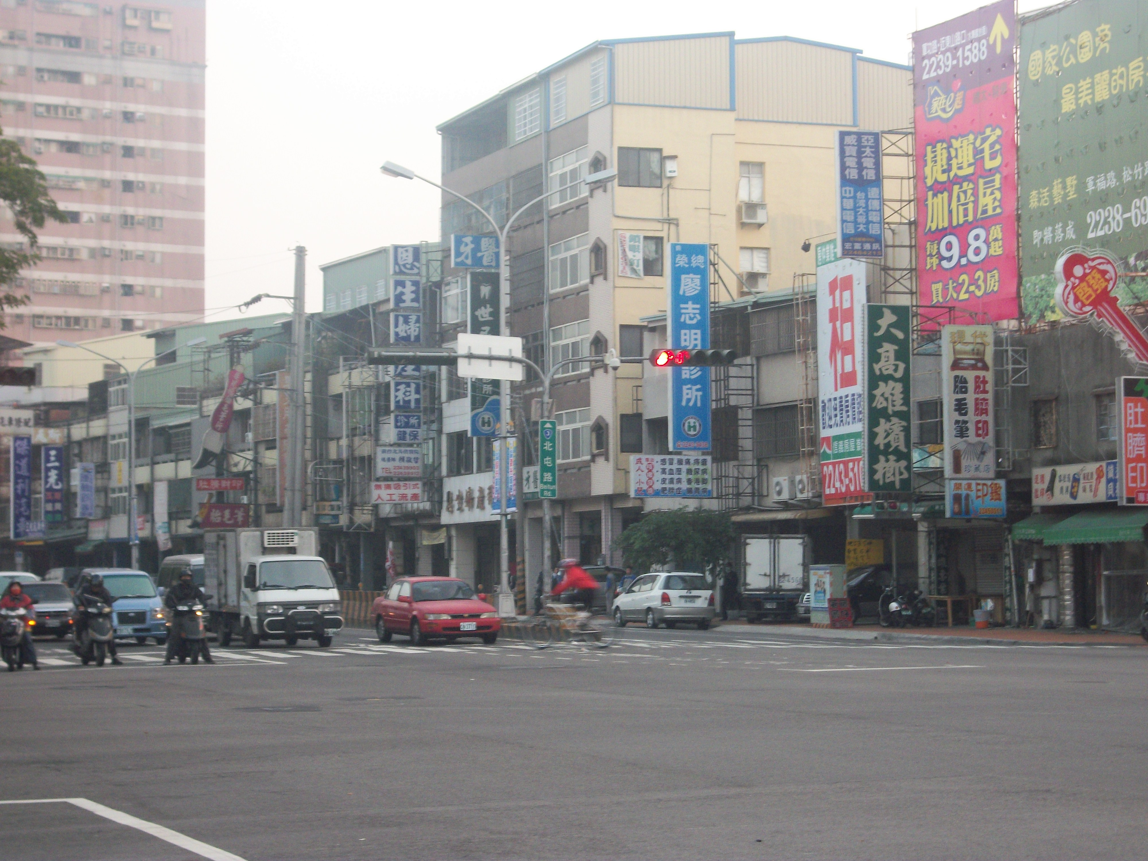 A view at the intersection of Beitun Rd. and Wenshin Rd. in Taichung City,this place is called "Dakengkou".中文（台灣）: 拍攝於台中市文心路與北屯路交叉口，這地方叫大坑口。